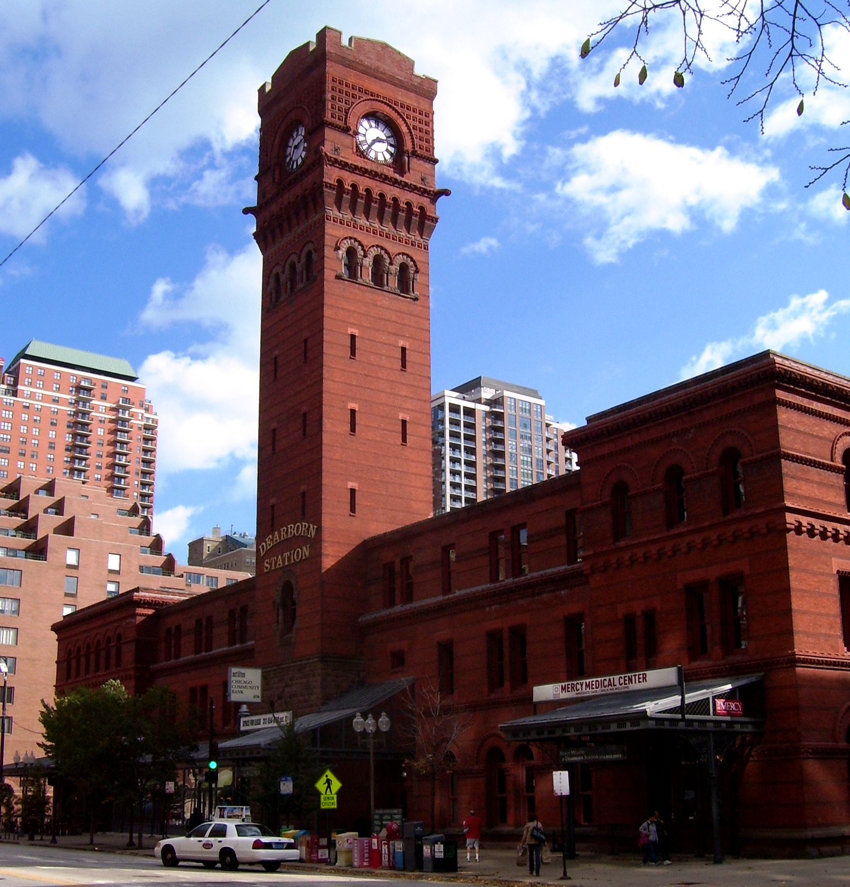 Dearborn Station in Chicago, seen from the west